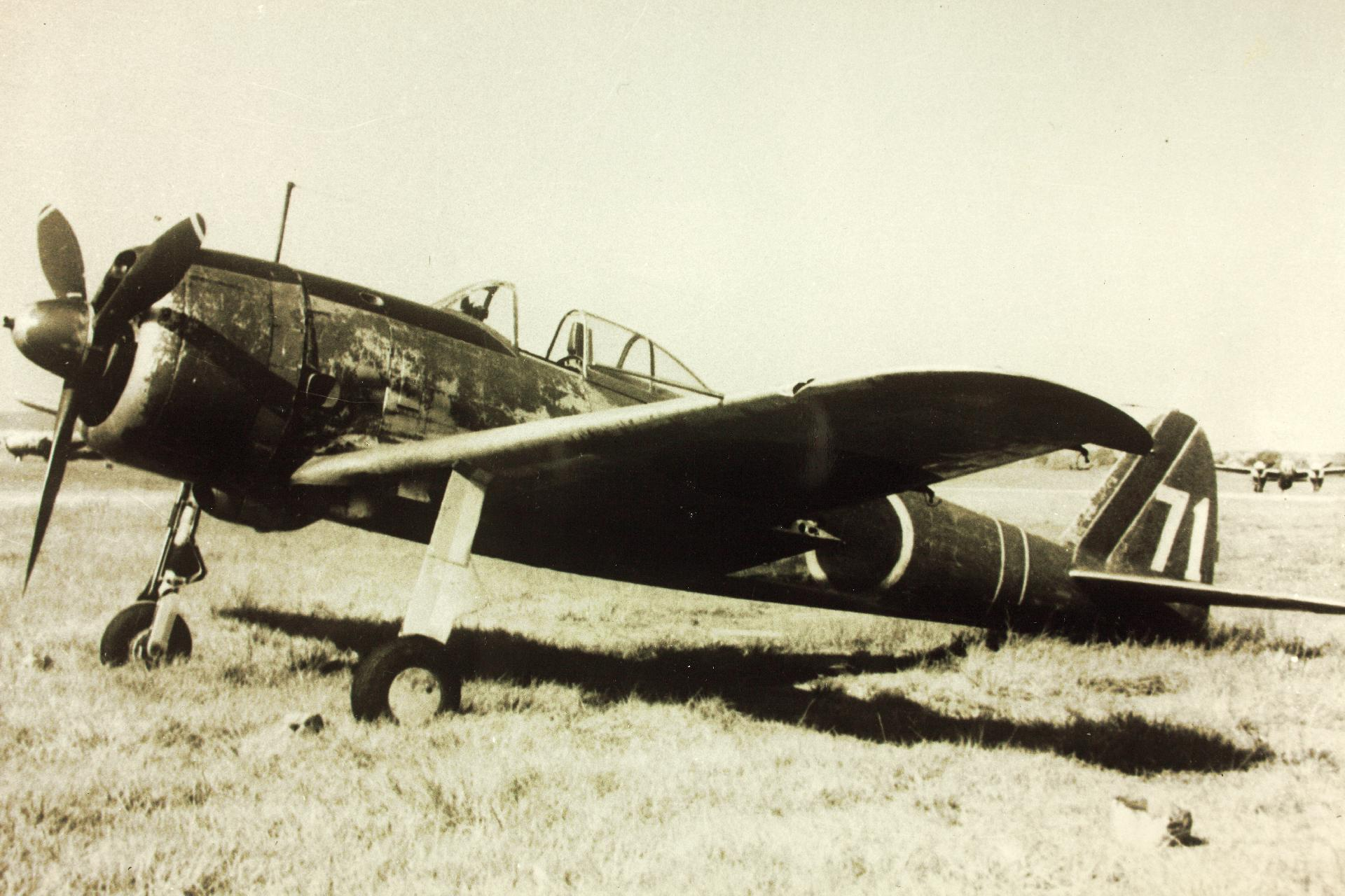 Nakajima, Ki-43, Hayabusa "Peregrine Falcon" Oscar "Jim" Army Type 1 Fighter